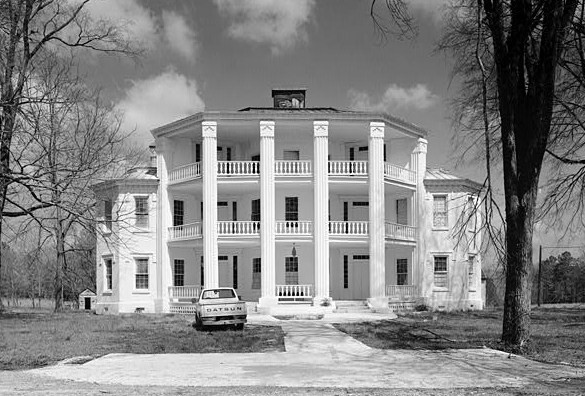 Frazier-Pressley House, Intersection County Roads 33,112 & 47, Abbeville vicinity (Abbeville County, South Carolina) - cropped. Image courtesy Historic American Buildings Survey—HABS (in South Carolina). This file comes from the Historic American Buildings Survey (HABS), Historic American Engineering Record (HAER) or Historic American Landscapes Survey (HALS). These are programs of the National Park Service established for the purpose of documenting historic places. Records consist of measured drawings, archival photographs, and written reports. This tag does not indicate the copyright status of the attached work. A normal copyright tag is still required. See Commons:Licensing for more information. English | +/− This work is in the public domain in the United States because it is a work prepared by an officer or employee of the United States Government as part of that person’s official duties under the terms of Title 17, Chapter 1, Section 105 of the US Code. See Copyright. Note: This only applies to original works of the Federal Government and not to the work of any individual U.S. state, territory, commonwealth, county, municipality, or any other subdivision. This template also does not apply to postage stamp designs published by the United States Postal Service since 1978. (See § 313.6(C)(1) of Compendium of U.S. Copyright Office Practices). It also does not apply to certain US coins; see The US Mint Terms of Use. This file has been identified as being free of known restrictions under copyright law, including all related and neighboring rights. Object location34° 04′ 50″ N, 82° 18′ 08″ W